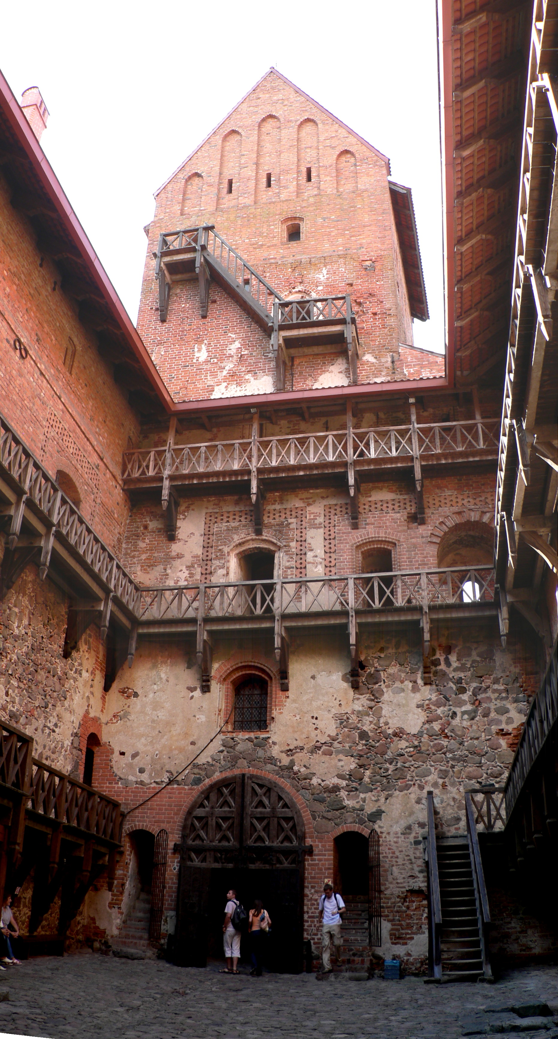 Trakai Island Castle inner yard with donjon